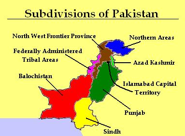 I, the creater, User:Fast track release this map to be used according to licenses below